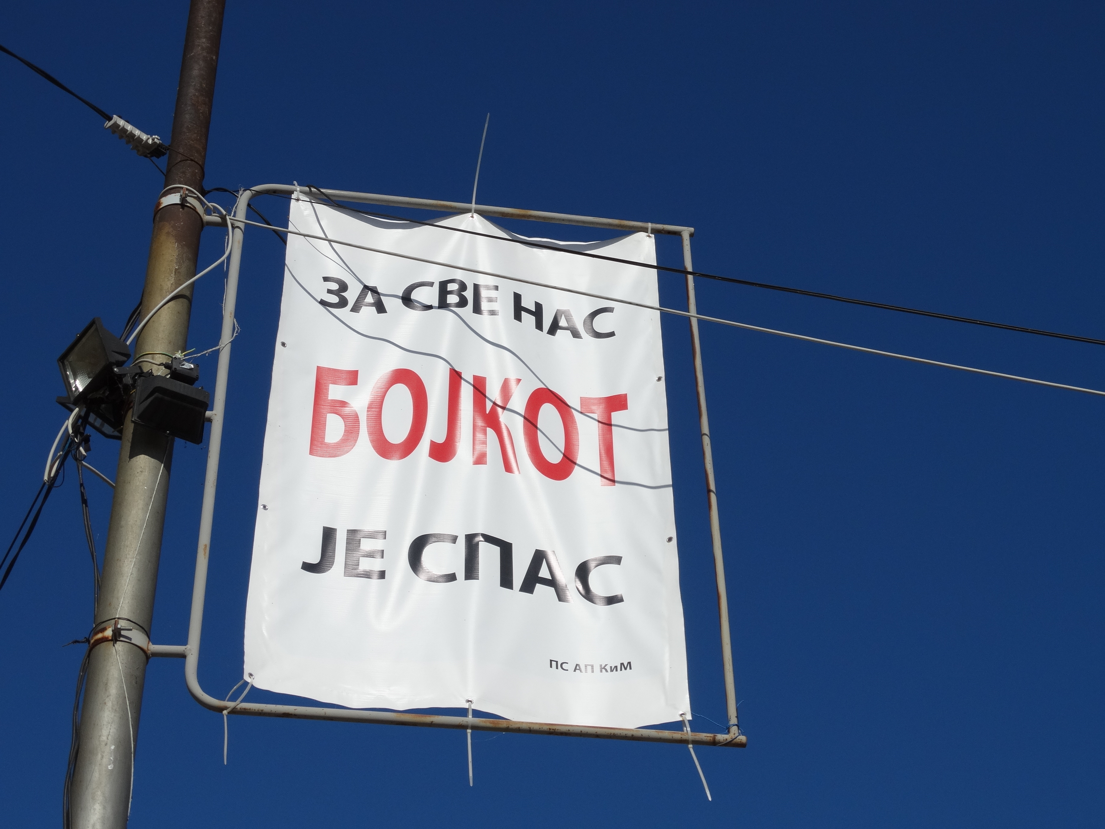 Banner Urging Boycott of November 2013 Municipal Elections - Mitrovica (Serb Side) - Kosovo - 02